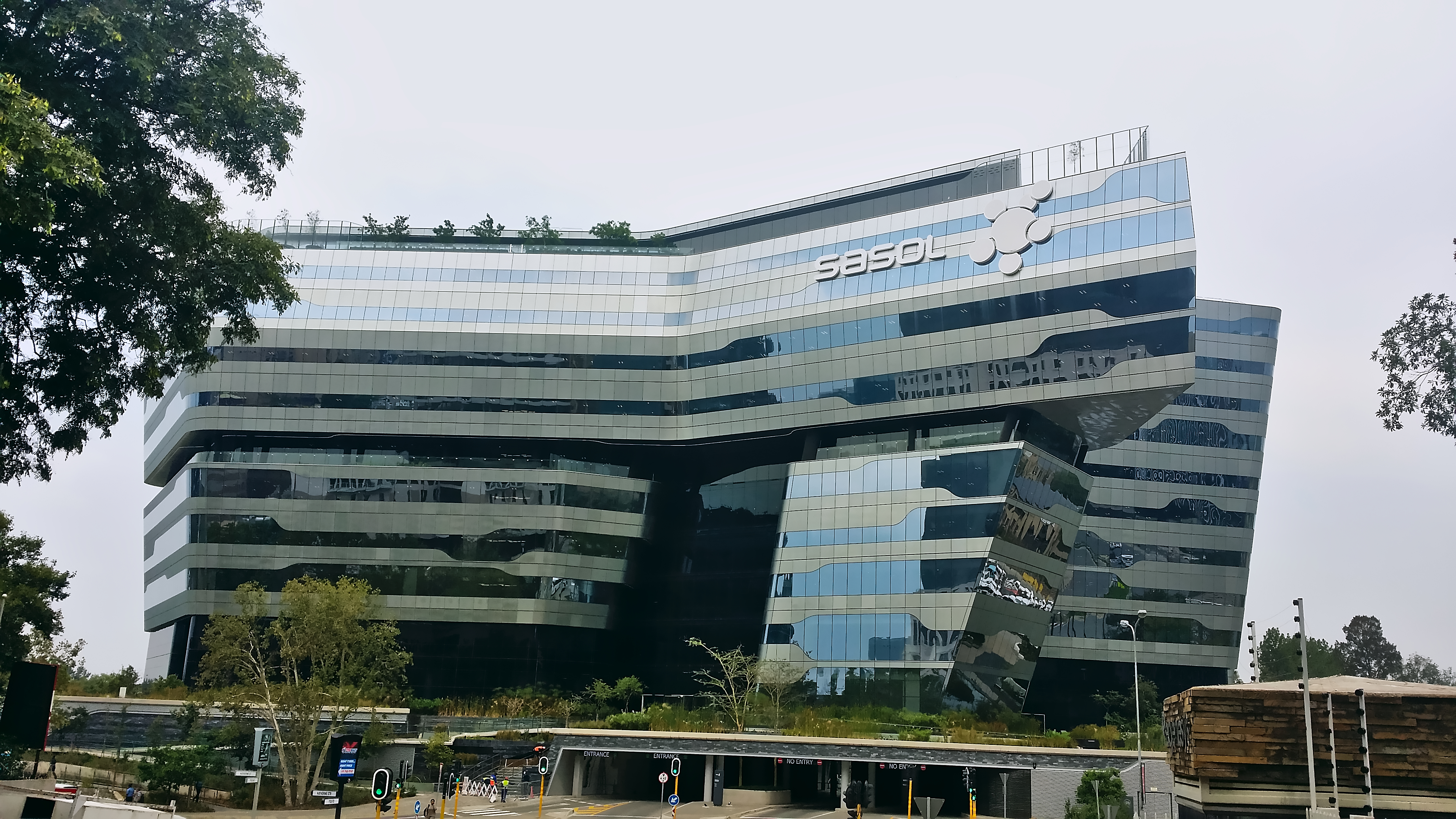 Sasol Place, 50 Katherinestraat, Sandton